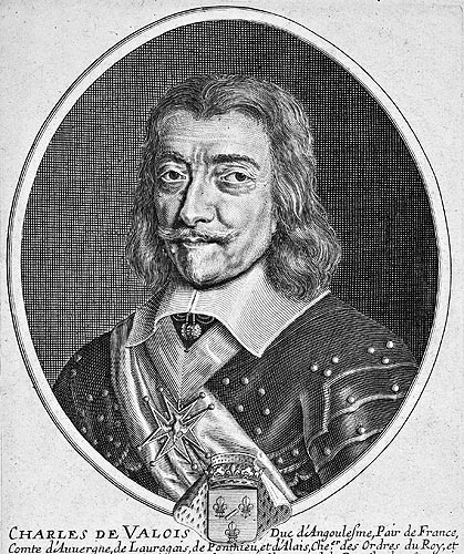 Charles de Valois, Duke of Angoulême (1573-1650). Engraving by Pierre Daret (1610-1675)